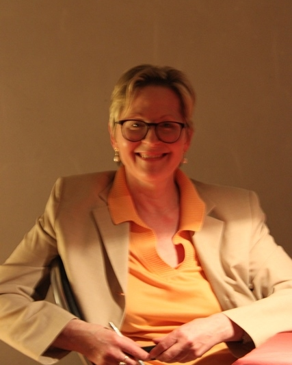 Elisabeth Florin